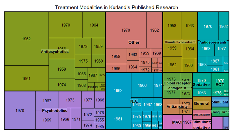 Treemap of Kurland's reserach article frequency by treatment modality.